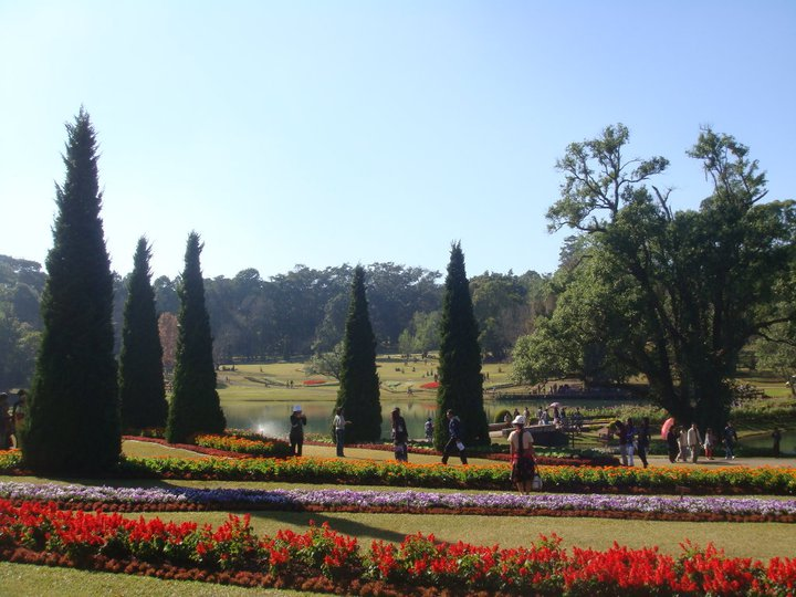 Kan Daw Gyi Park which is formerly known as Pyin Oo Lwin Botanic Park. မြန်မာဘာသာ: ပြင်ဦးလွင်မှ ကန်တော်​ကြီး​ပန်းခြံ